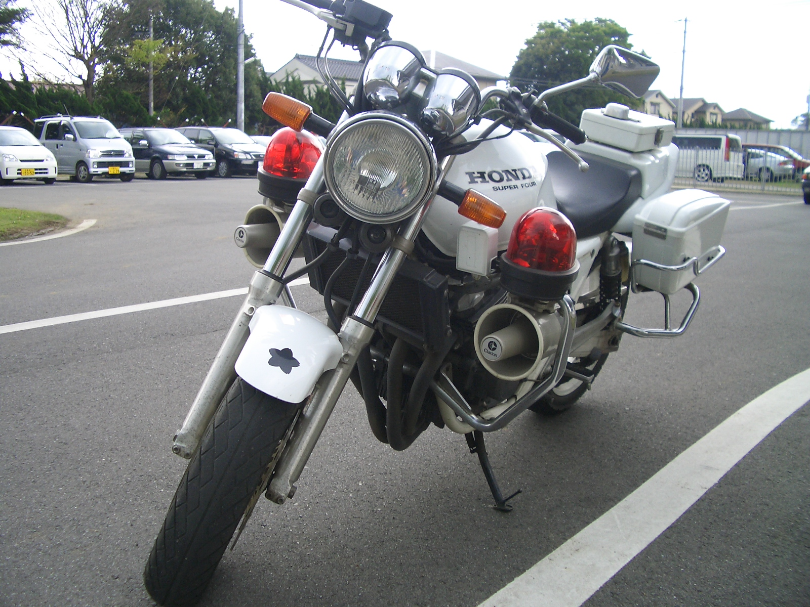 A police motorcycle used by the Japanese Ground Self Defense Forces.